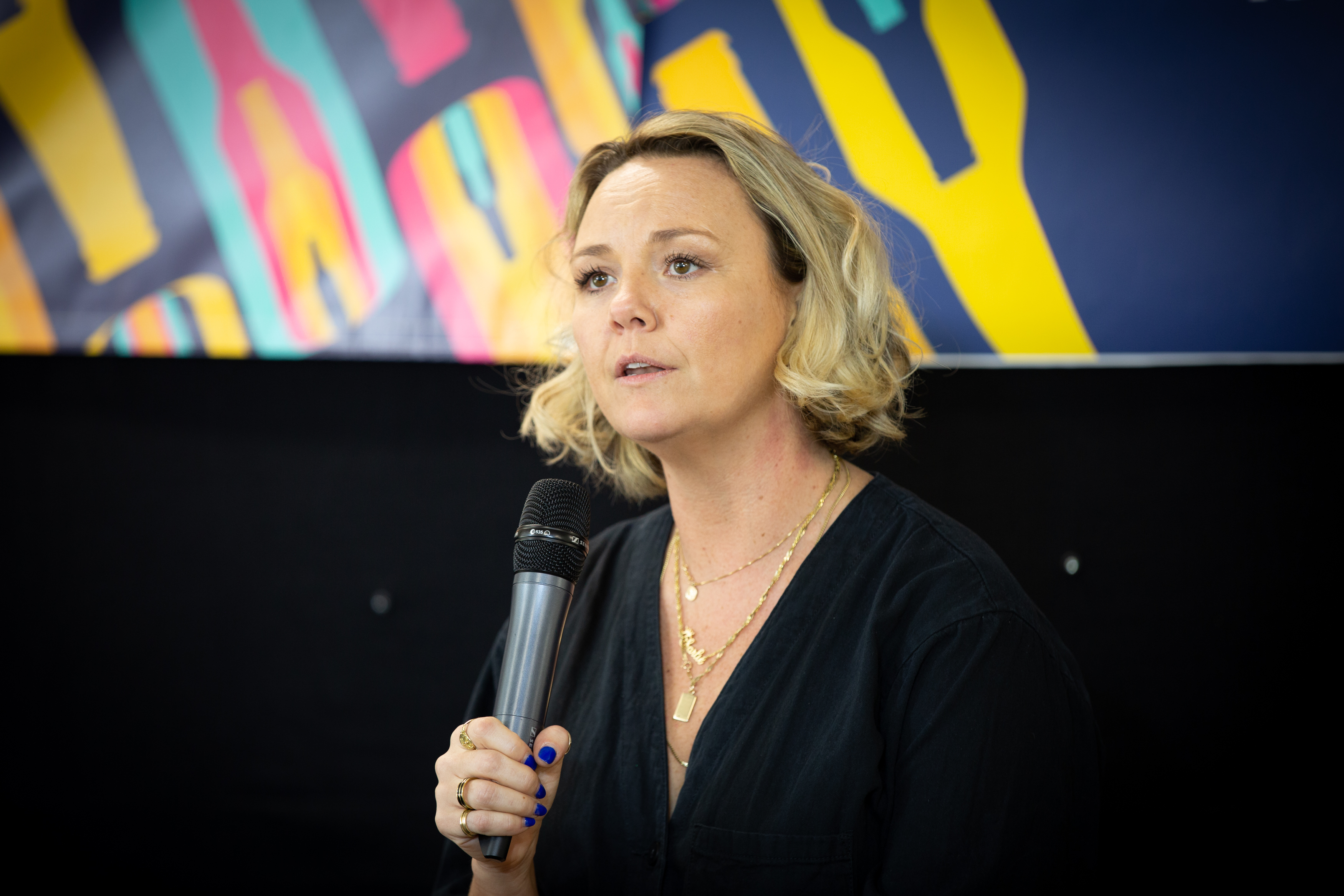 Actress Charlie Brooks The Mindful Drinking Festivals are organised by Club Soda, the Mindful Drinking Movement ™. Saturday 18th and Sunday 19th of January 2020 Saturday 11-6pm Sunday 10-5pm Ely’s Yard, The Truman Brewery, E1 6QL Sponsors: Lyre's Old Mout Lindeman's Wine Upflow Brewing Champs